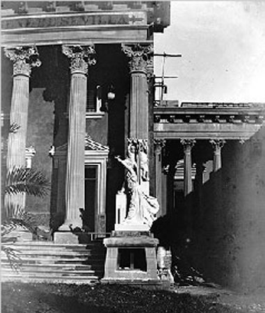 Sculptural group of the allegory of the shower. Instituto de Higiene del Doctor Murga (Institute of Hygiene of the Doctor Murga), Seville.